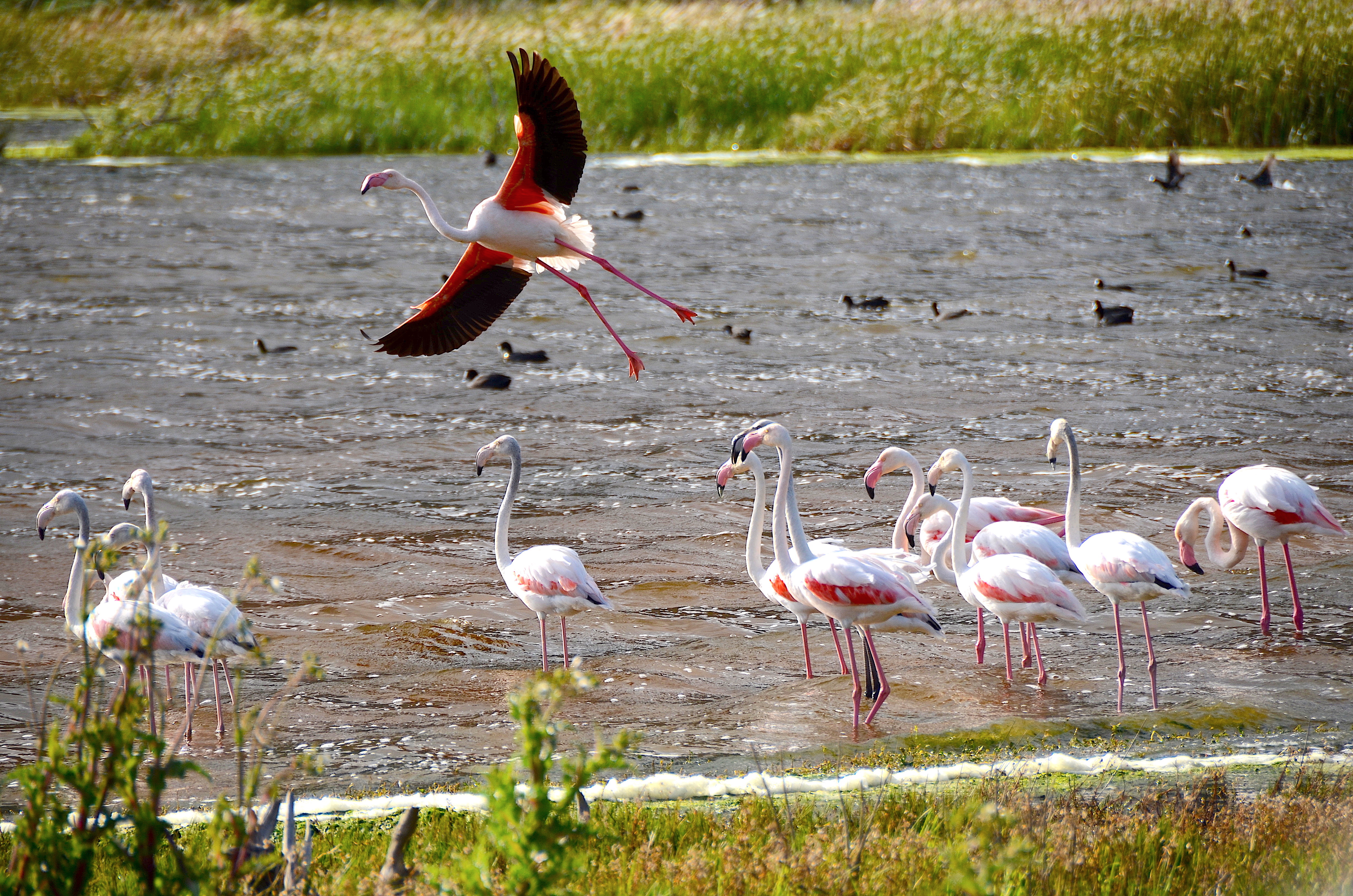 Greater Flamingo starting without a run-up (South Africa)